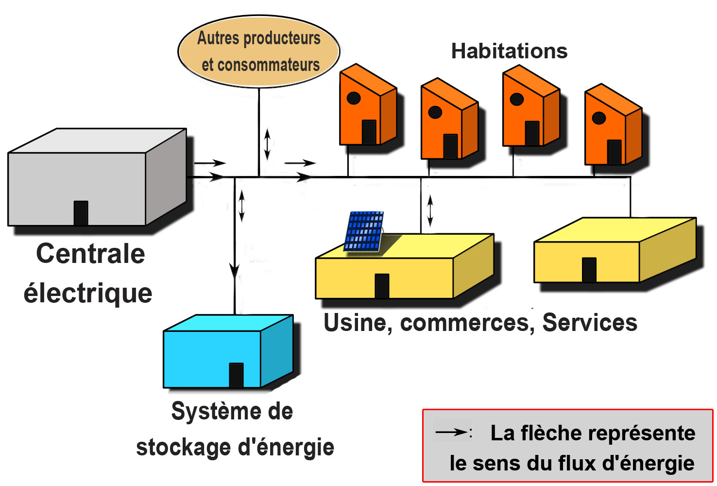 Simplified electrical grid with grid energy storage (without distributed generation)